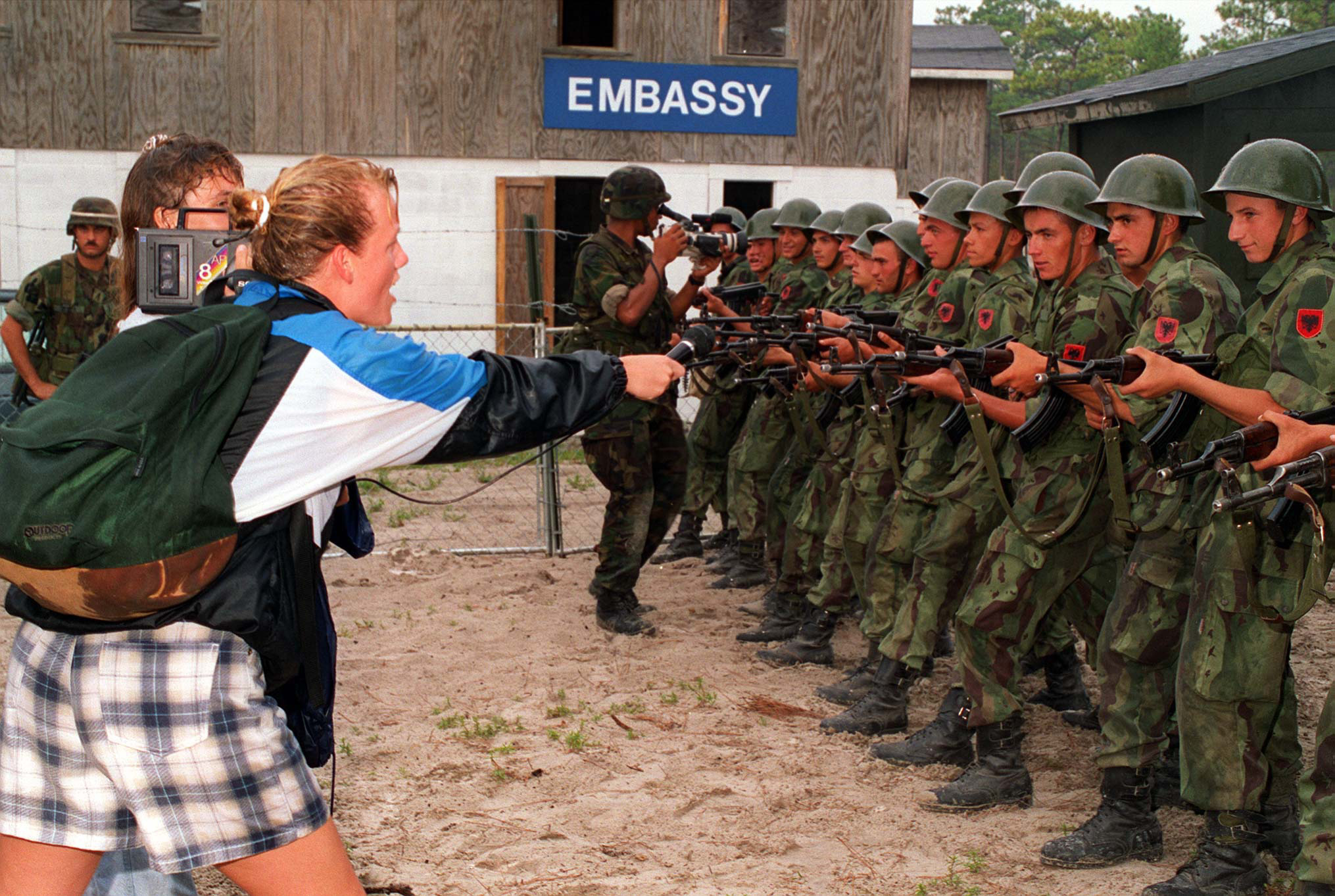 Albanian troops are videotaped and interviewed by Marines role playing as news media while the troops practice crowd control measures in a Civil Disturbance/ Mass Casualty Situational Training Exercise at Camp Lejeune, N.C., on Aug. 19, 1996 as part of Cooperative Osprey '96. Cooperative Osprey '96 is a NATO sponsored exercise as part of the alliance's Partnership for Peace program. The aim of the exercise is to develop interoperability among the participating forces through practice in combined peacekeeping and humanitarian operations. Three NATO countries and 16 Partnership for Peace nations are taking part in the field training exercise.